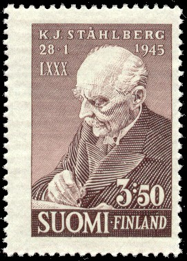 Postage stamp depicting the president Finland K. J. Ståhlberg